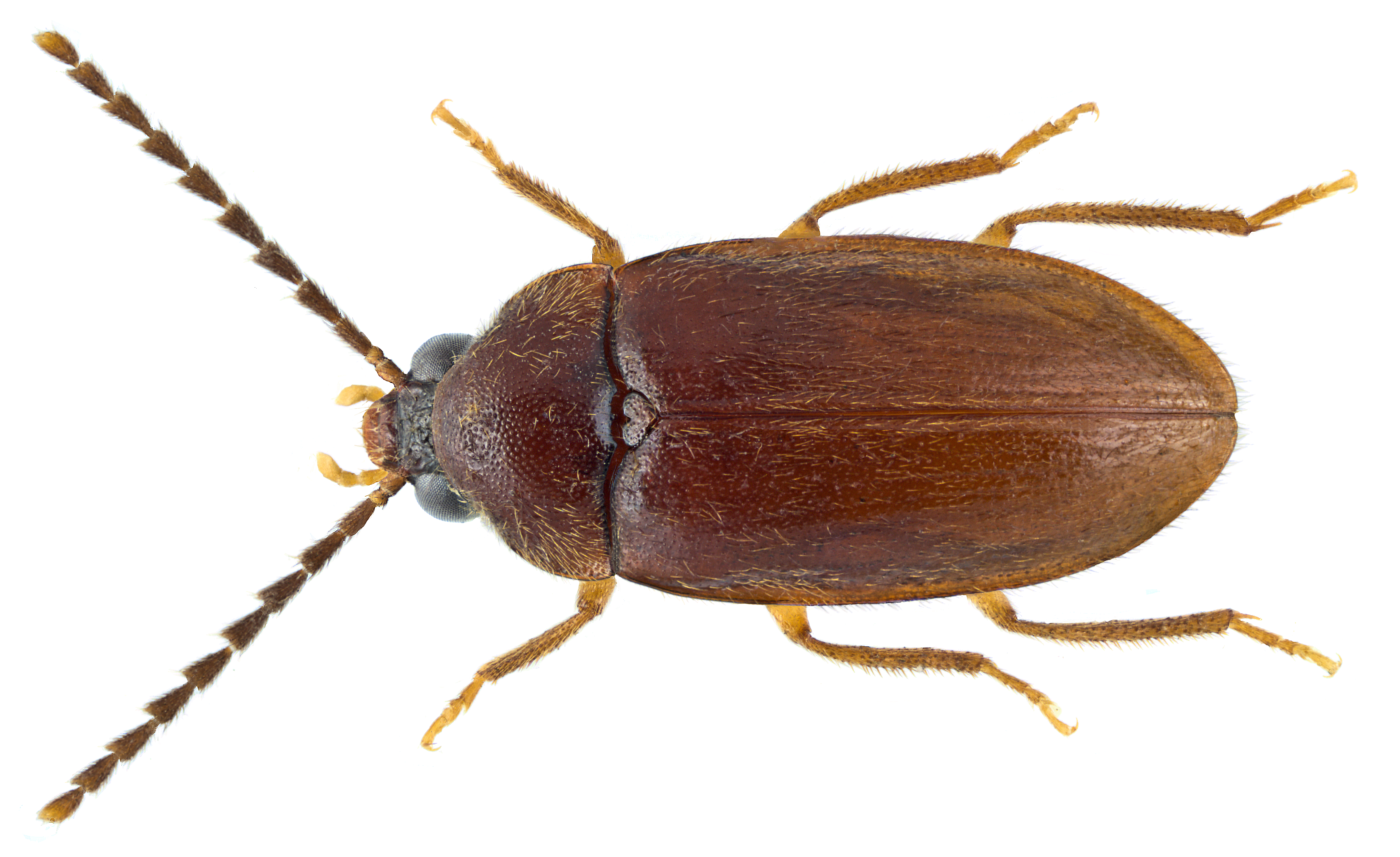 Family: Ptilodactylidae Size: 5,0 mm Distribution: South and Central America, introduced to Europe in greenhouses with tropical plants Location: England, Surrey, Royal Botanic Gardens, Kew leg.det. .D.J.Mann, 21.XII.2002 Coll. Oxford Museum of Natural History Photo: U.Schmidt, 2015